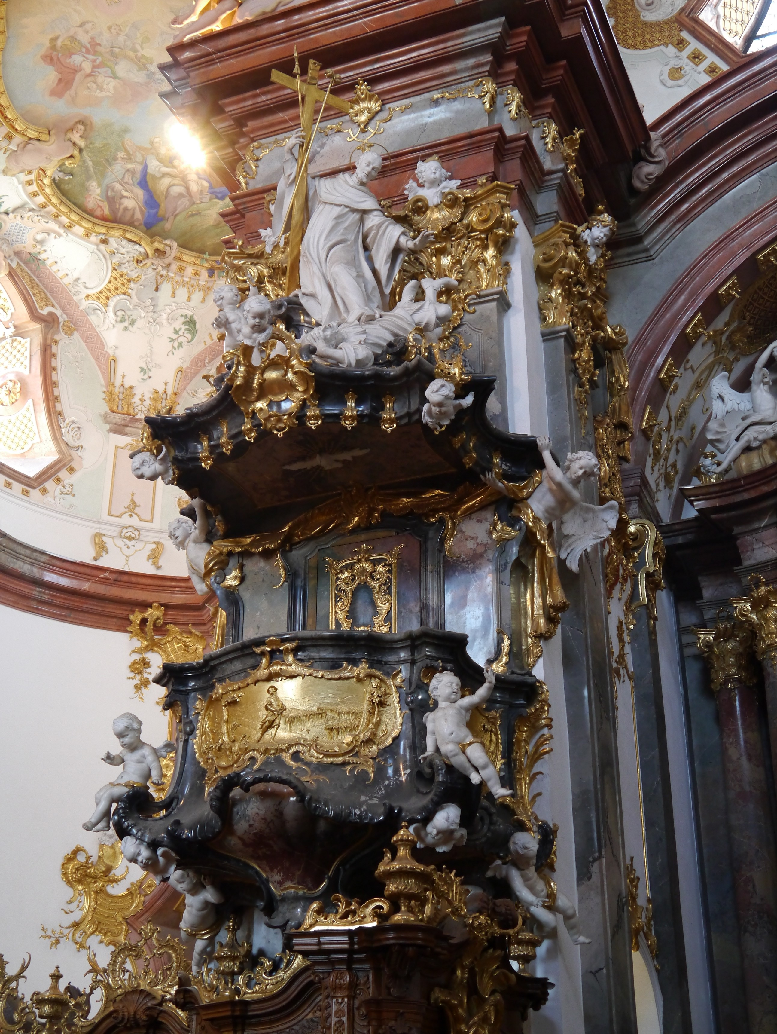 Pulpit of Wilhering Monastery Church, Wilhering, Upper Austria